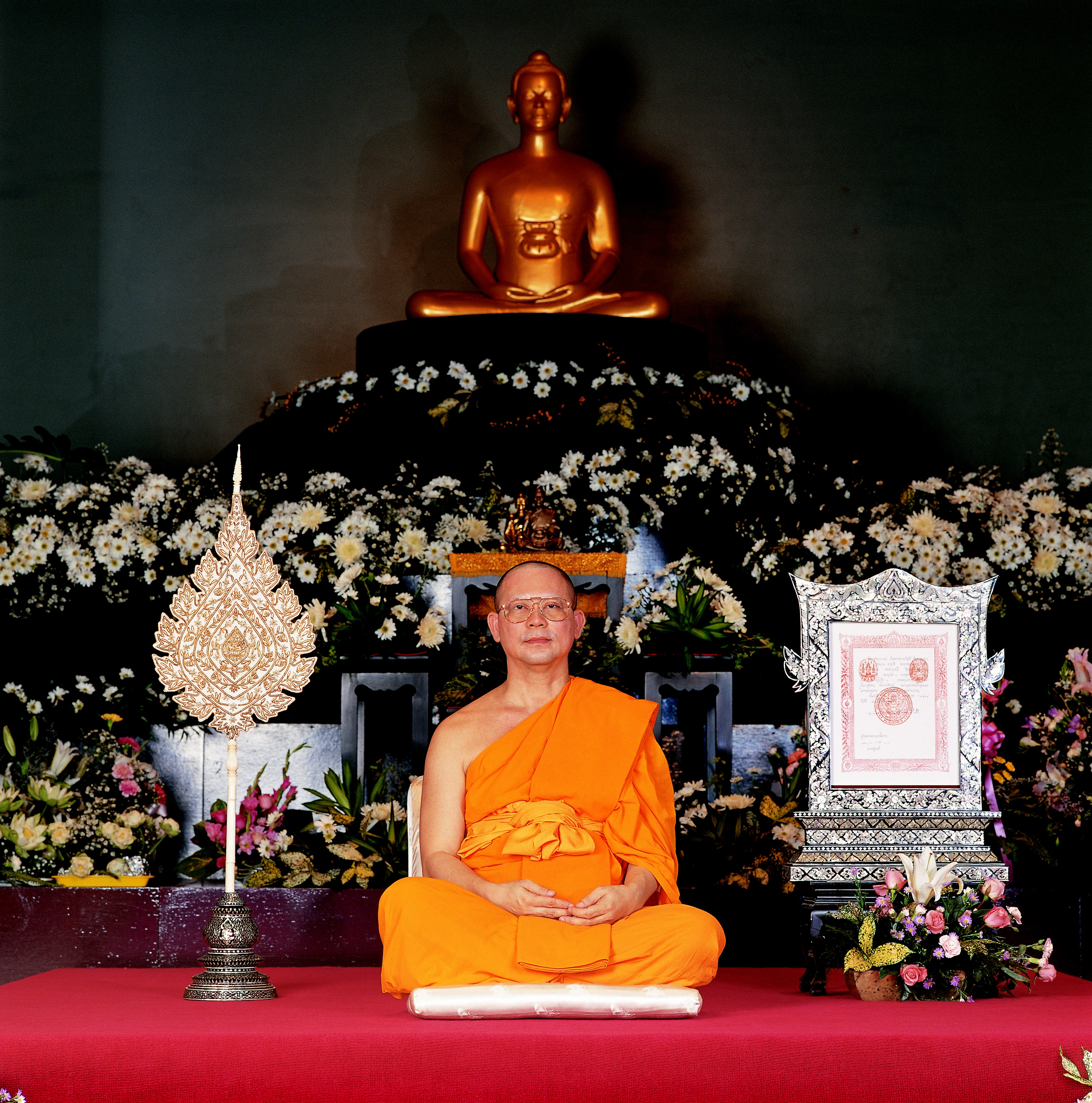 Luang Por Dhammajayo with honnorific fan, sitting in Ubosoth